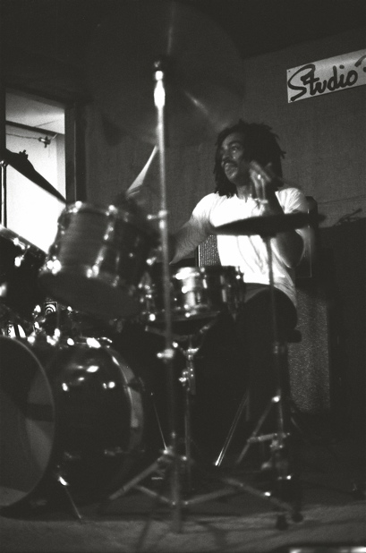 Charles Bobo Shaw The Human Arts Ensemble NYC - Studio Rivbea July 1976